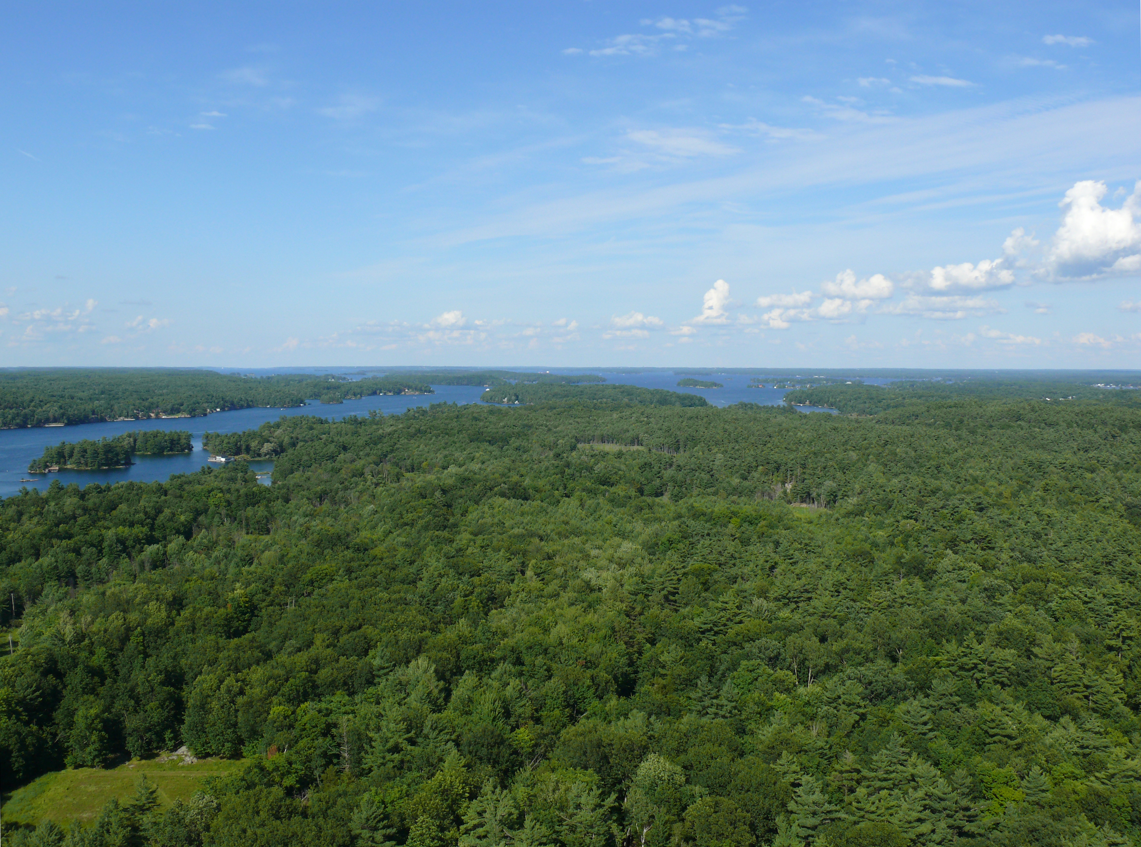 Thousand Islands and the Saint Lawrence River as seen from the Skydeck on Hill Island (CAN).